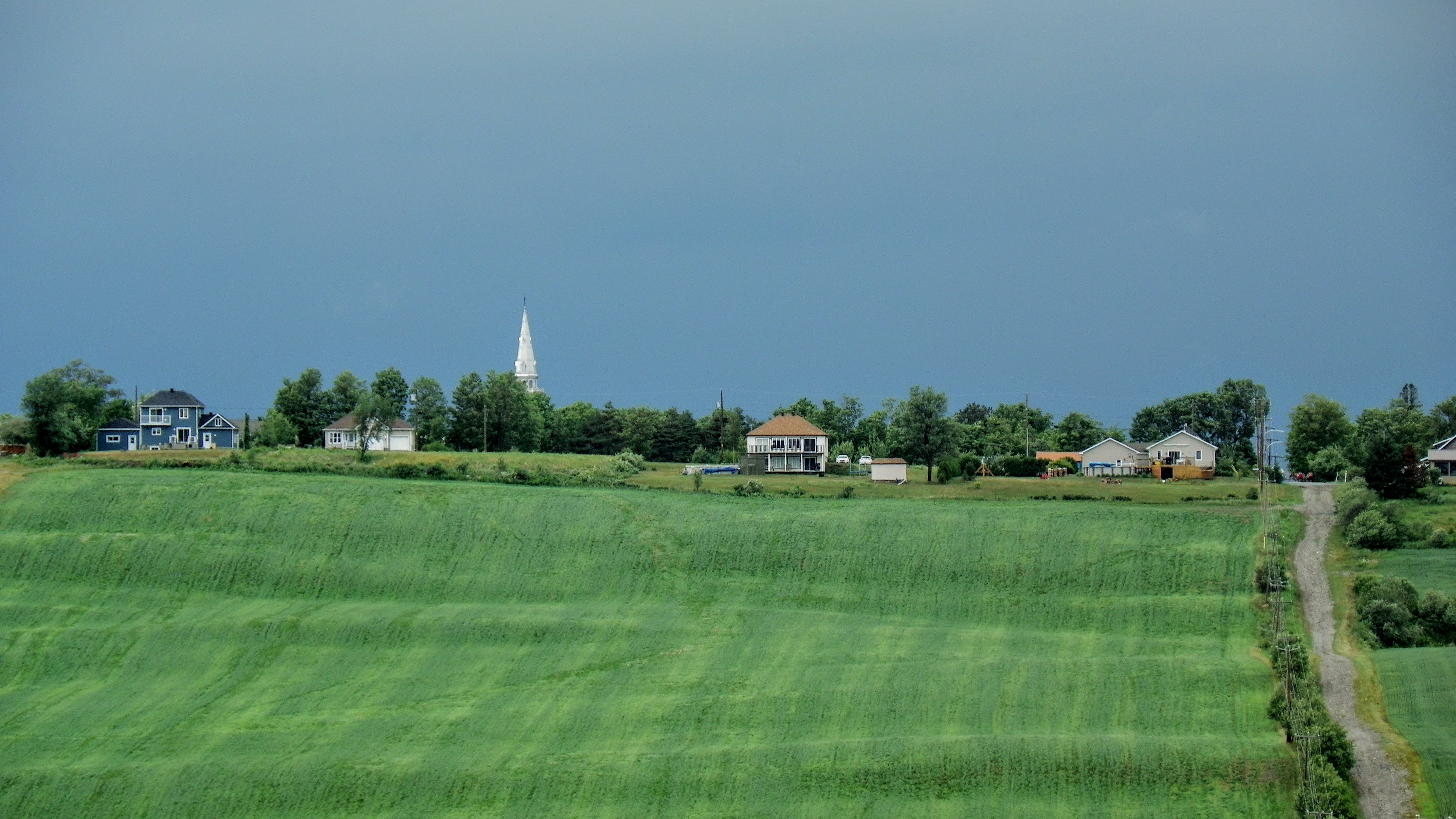 Saint-Sylvestre, Quebec, on the hill.